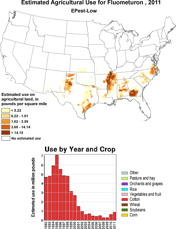 Fluometuron map of use, USA, 2011 (estimated)